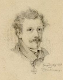 Georg Friedrich Kersting. Self Portrait with the Orden of Iron Cross